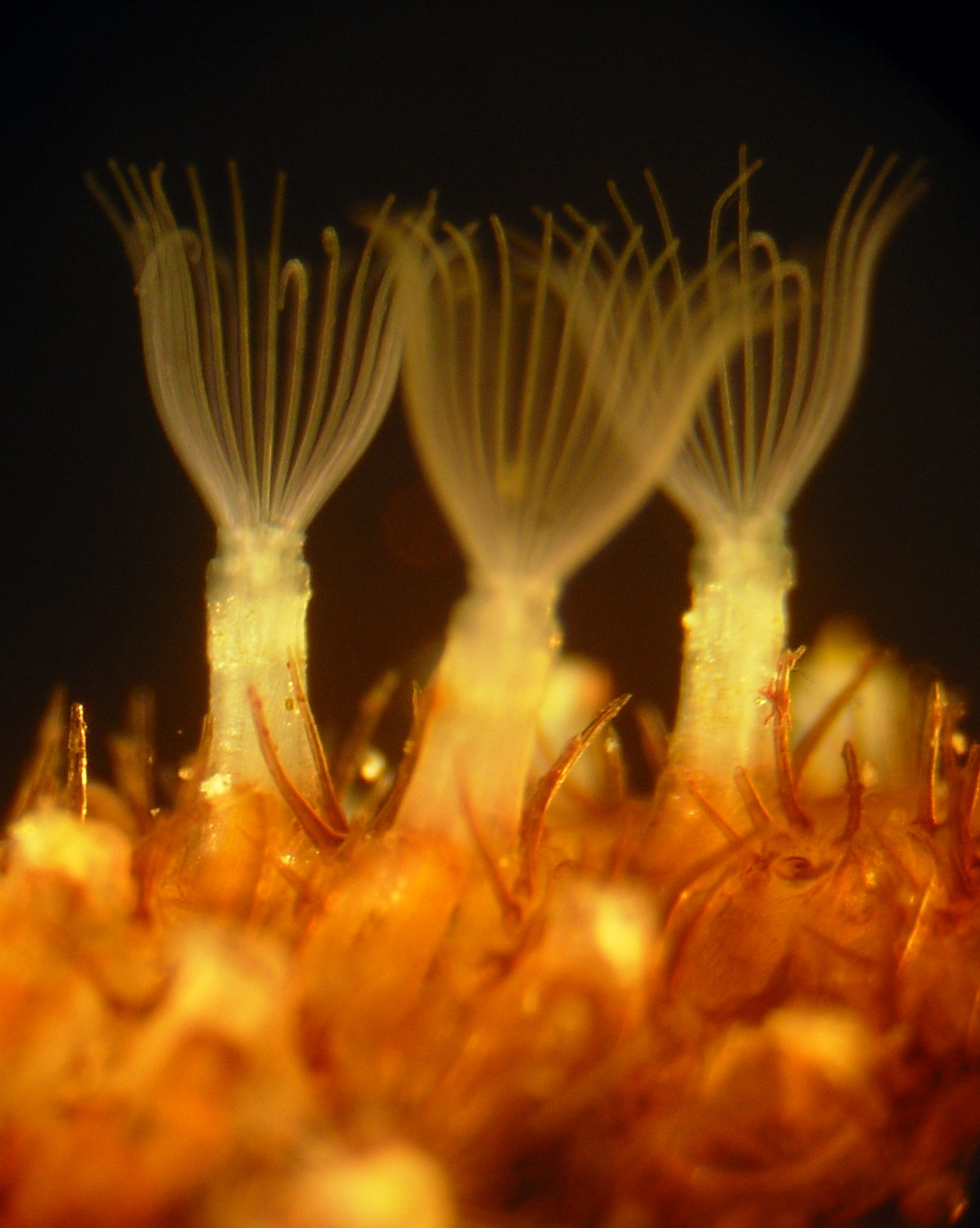 Flustrllidra, lophophore and spines.